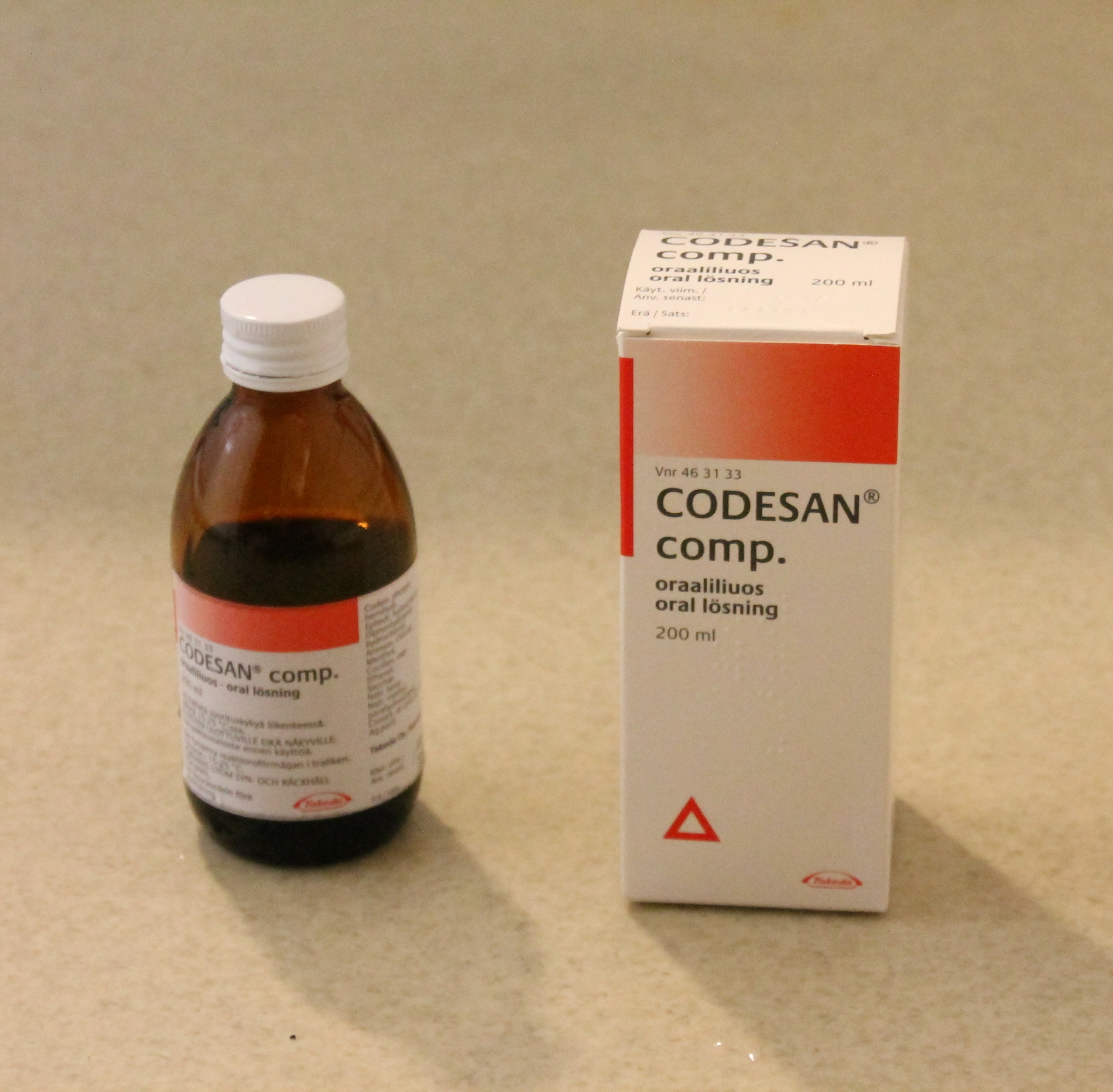 Codesan Comp -cough syrup, which is based on codeine, ephedrine and diphenhydramine.